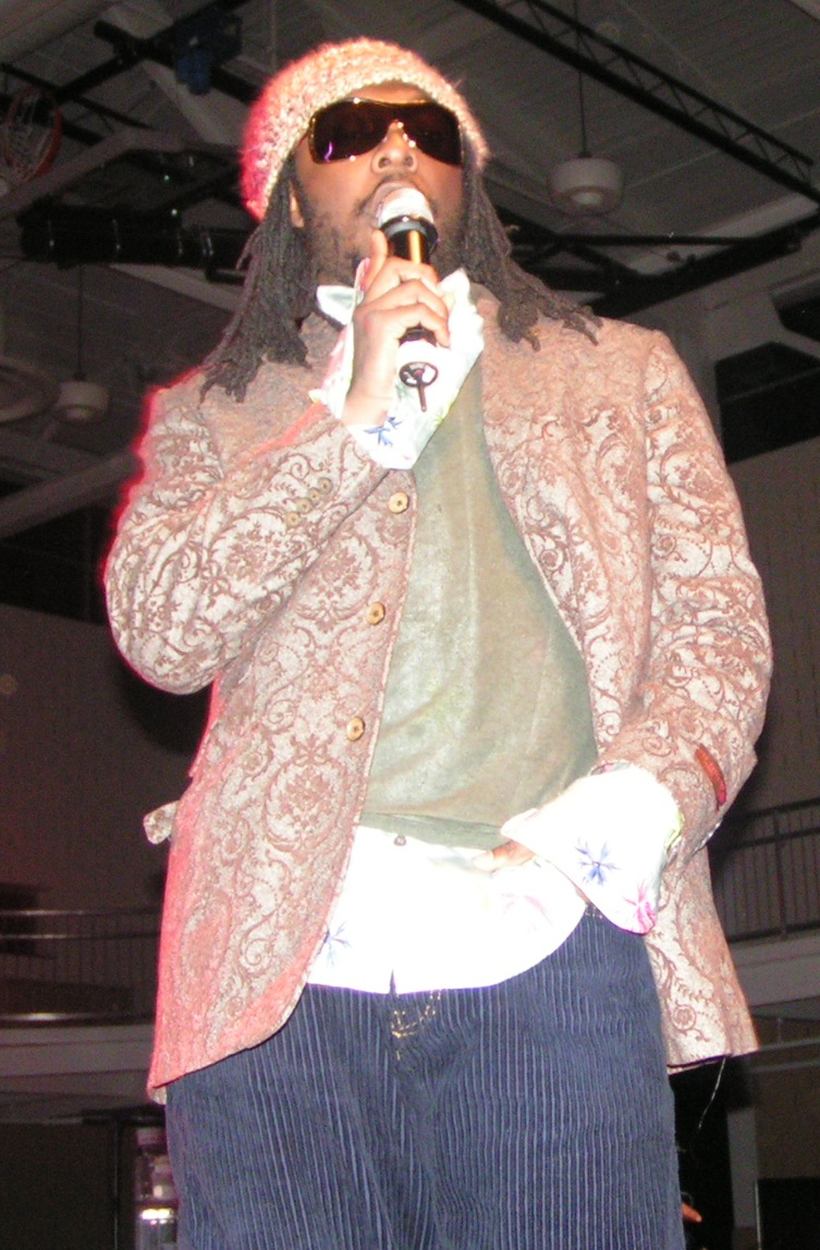 will.i.am performing at a Black Eyed Peas concert at East Stroudsburg University of Pennsylvania.